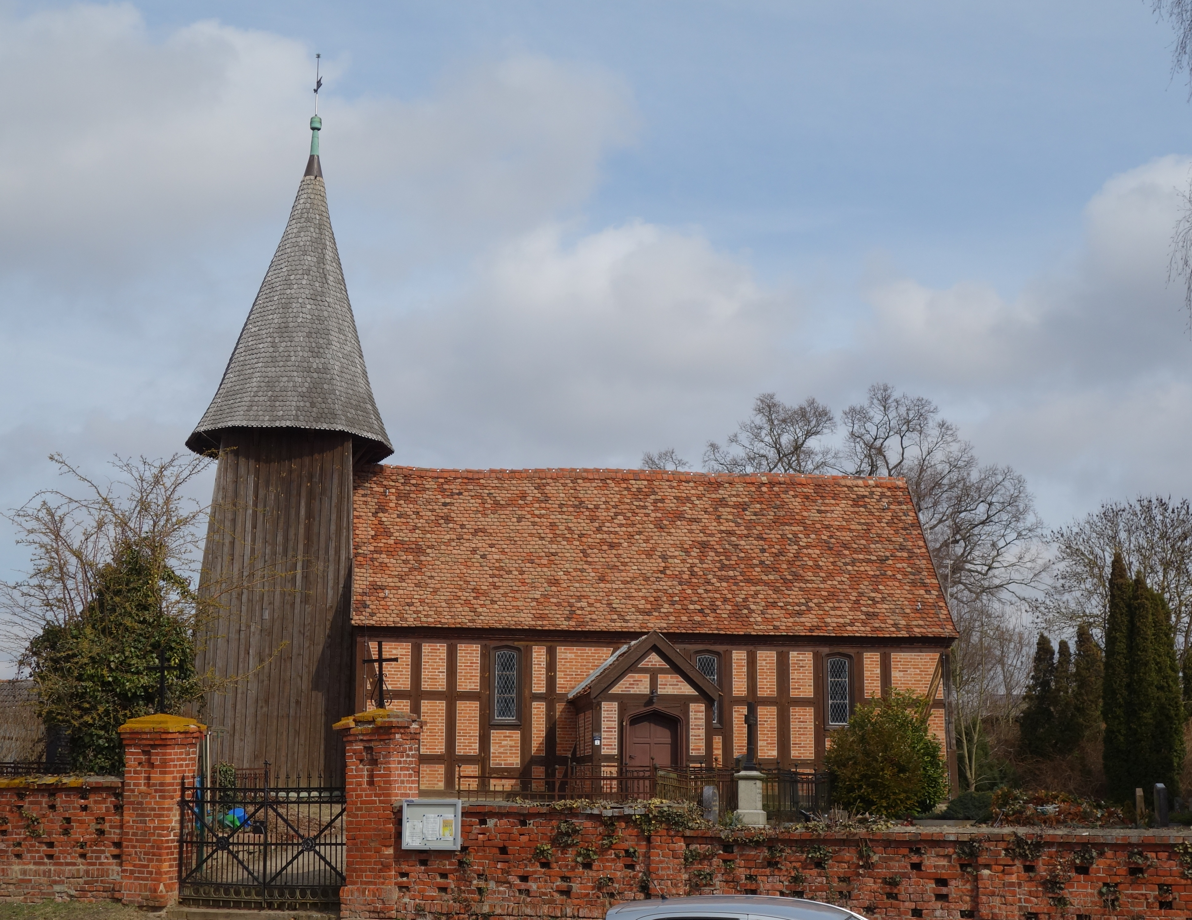 Southern view of church in Ellingen, Prenzlau municipality, Uckermark district, Brandenburg state, Germany